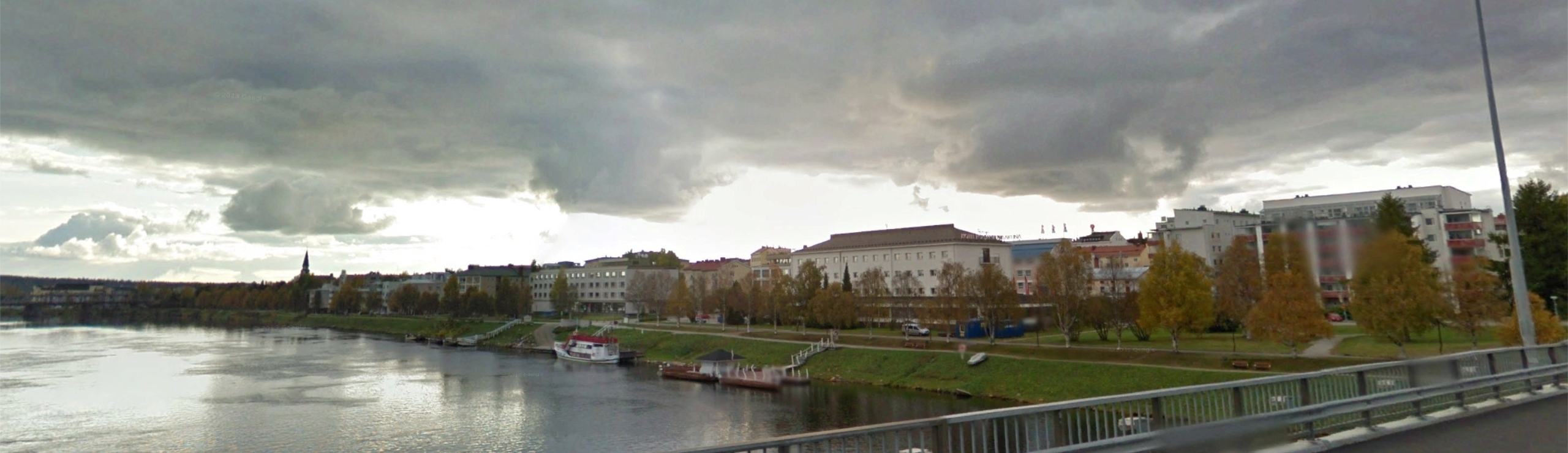 View of Rovaniemi from Jätkänkynttilä (Lumberjack's Candle Bridge) in September 2011.